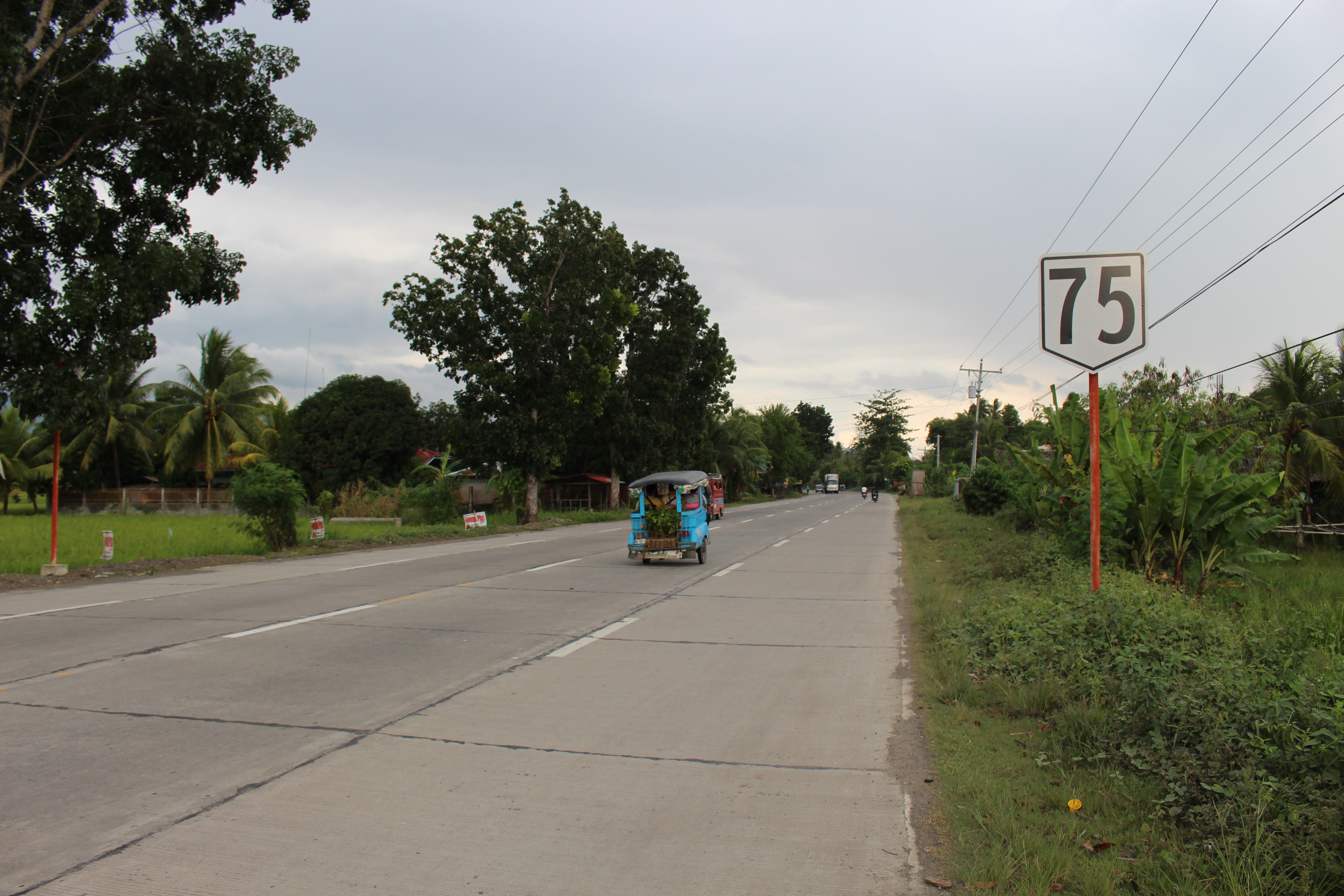 National Route 75 Reassurance Marker located at Pigcawayan, North Cotabato.